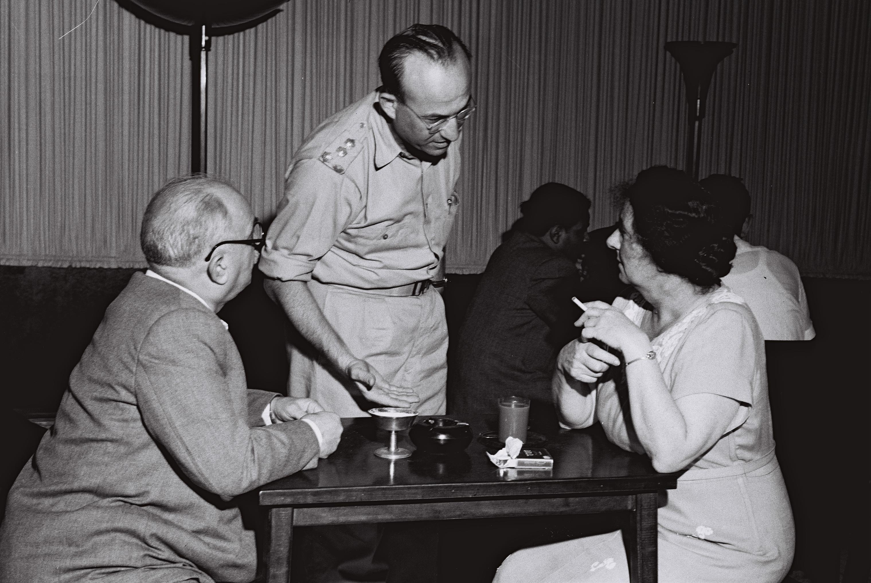 Golda Meir and David Remez talking to chief of police Yechezkel Sahar.